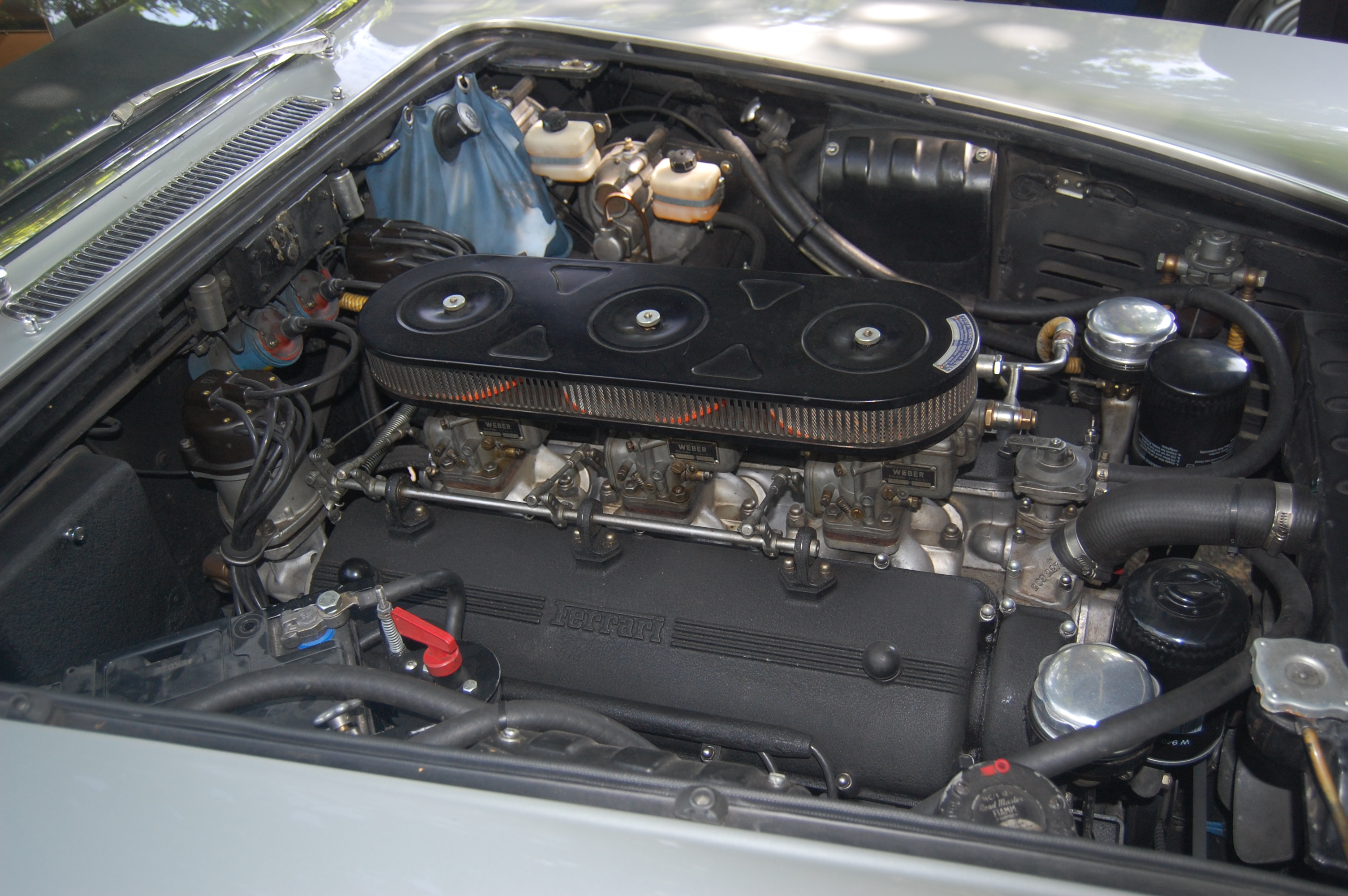 Engine of a Ferrari 330#330_GT_2.2B2